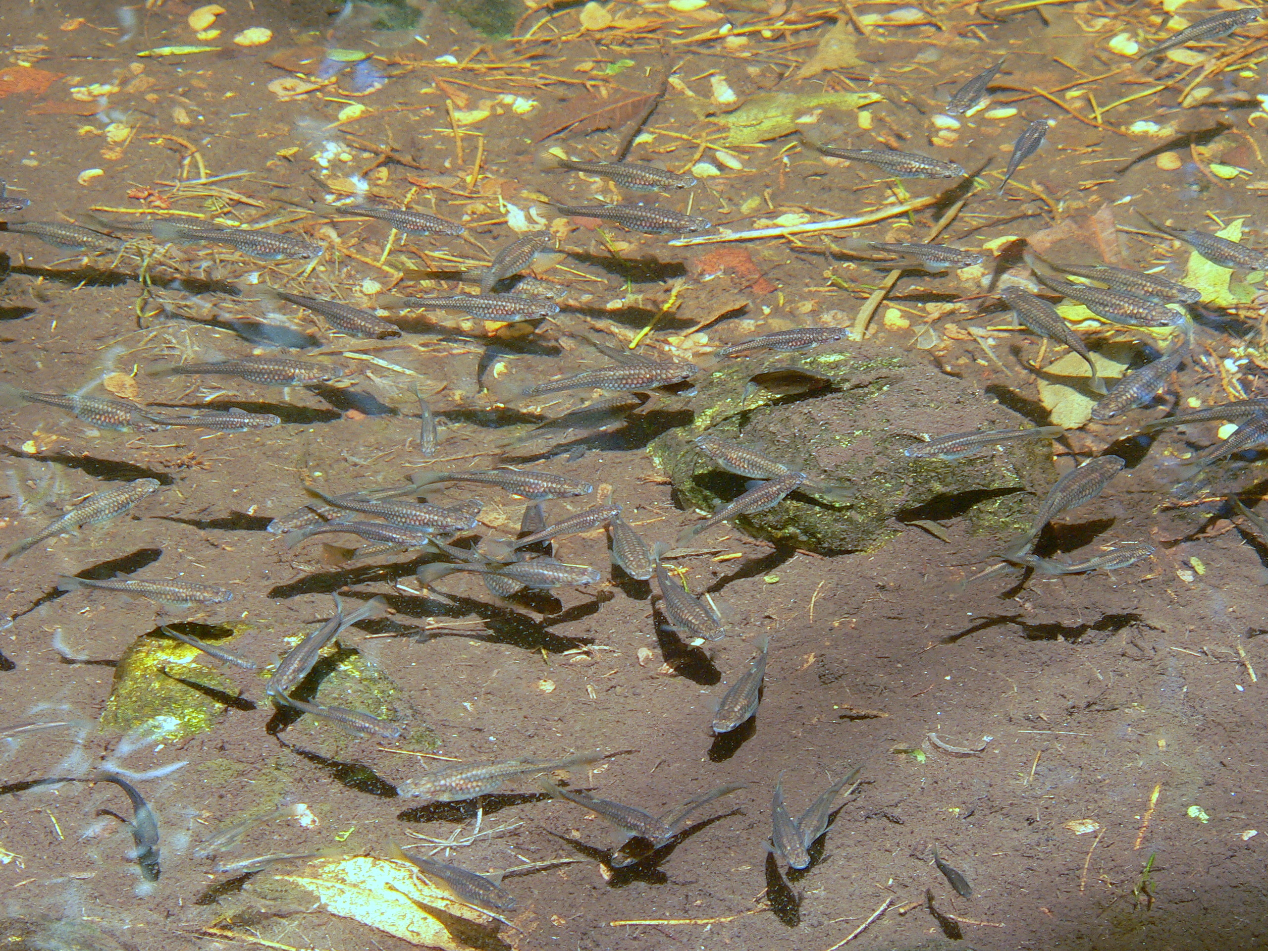 School of Gila topminnow (Poeciliopsis occidentalis) taken near Tuscon, AZ.